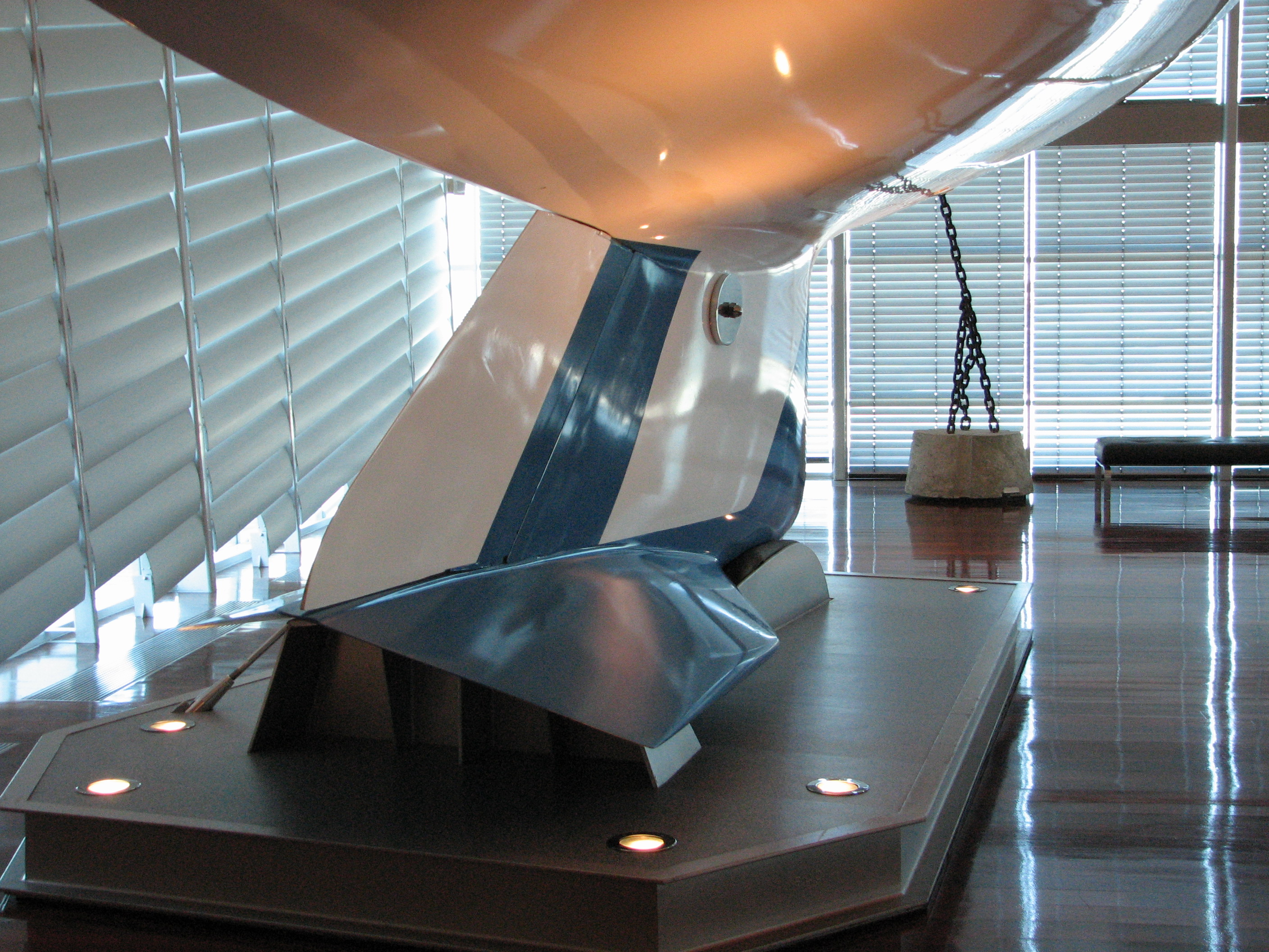 Rear quarter view of the notorious winged keel fitted to the winner of the 1983 Americas Cup, Australia II. The yacht is on permanent display in the Western Australian Maritime Museum in Fremantle.